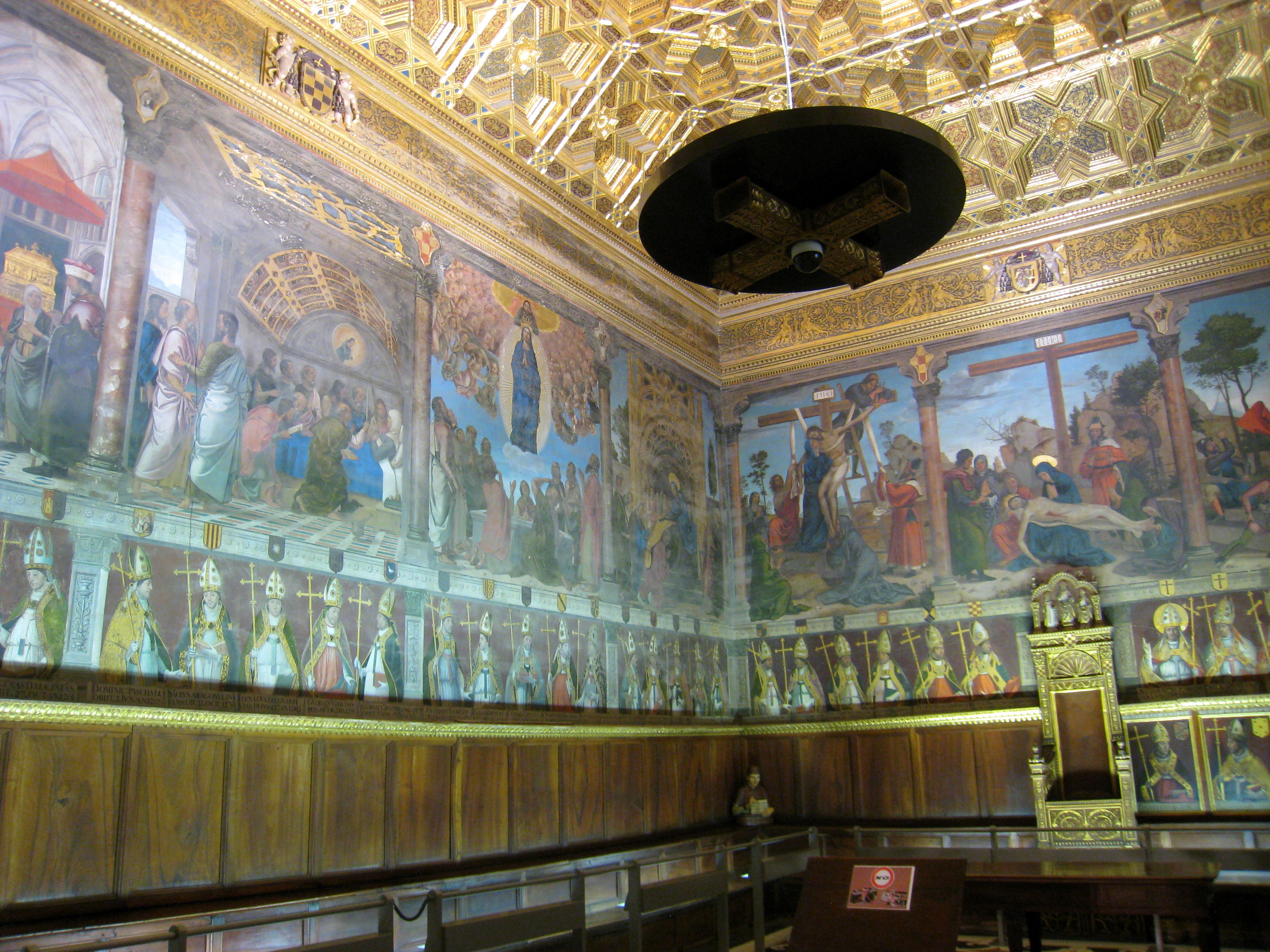 Sala Capitular (Catedral de Toledo), Toledo, Spain.